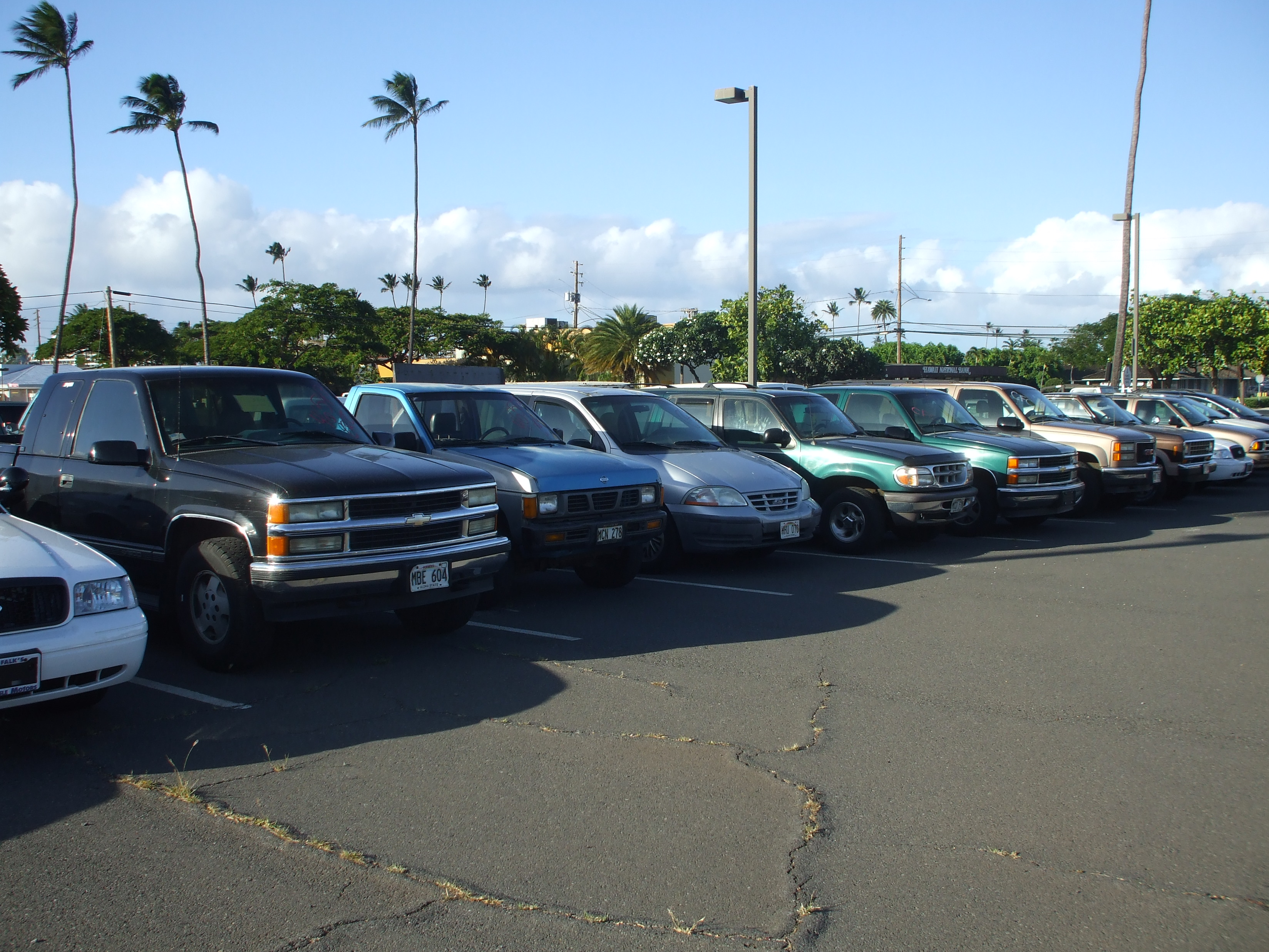 "Death Row" of CFC cars.